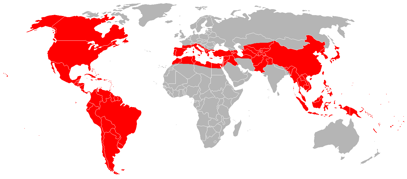 The Sotadic zone, from Burton's description. If you lived here, you'd be home by now!